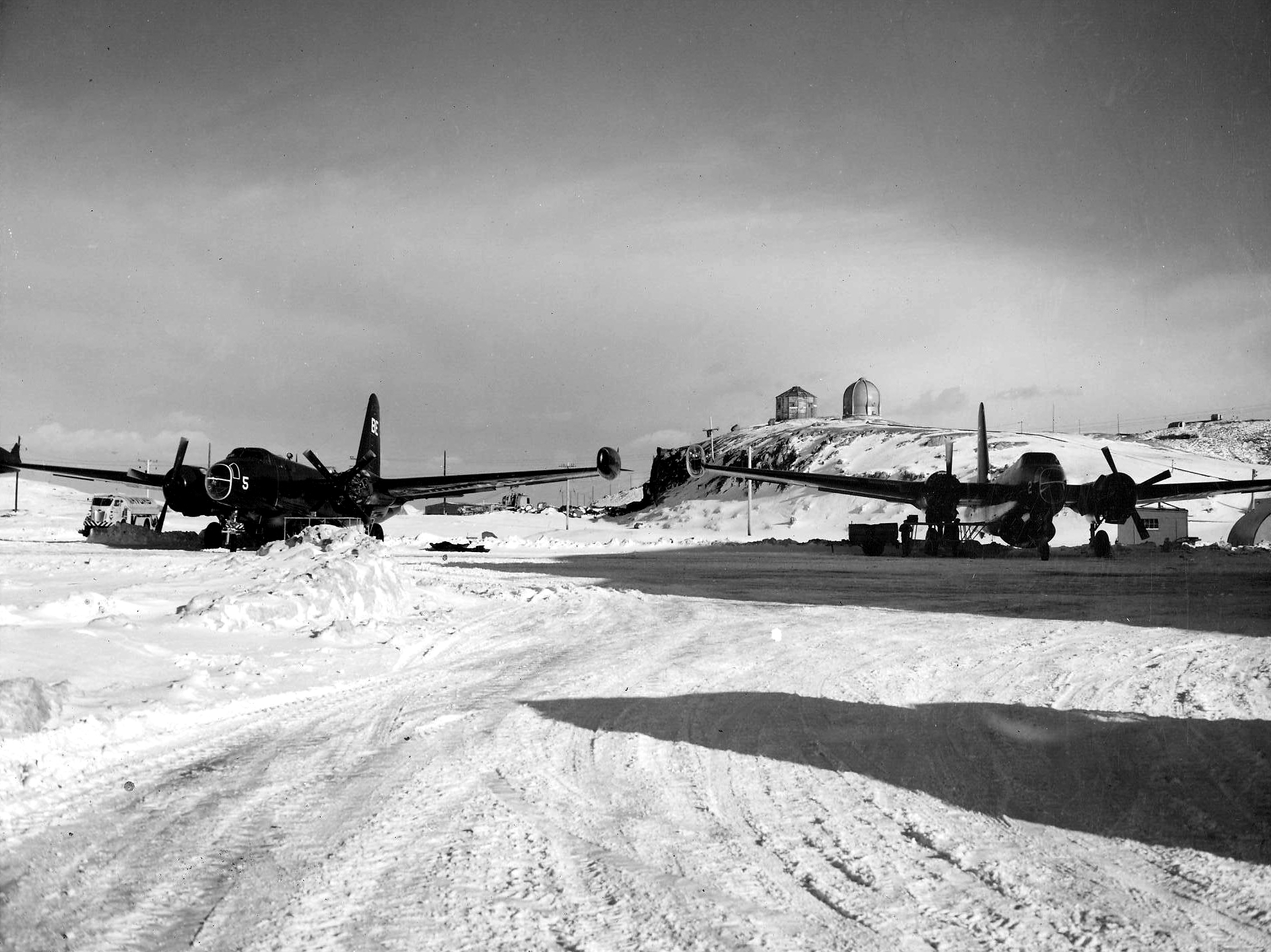 Two U.S. Navy Lockheed P2V-5 Neptunes of Patrol Squadron VP-6 "Blue Sharks" at Naval Air Station Kodiak, Alaska (USA), in 1954.